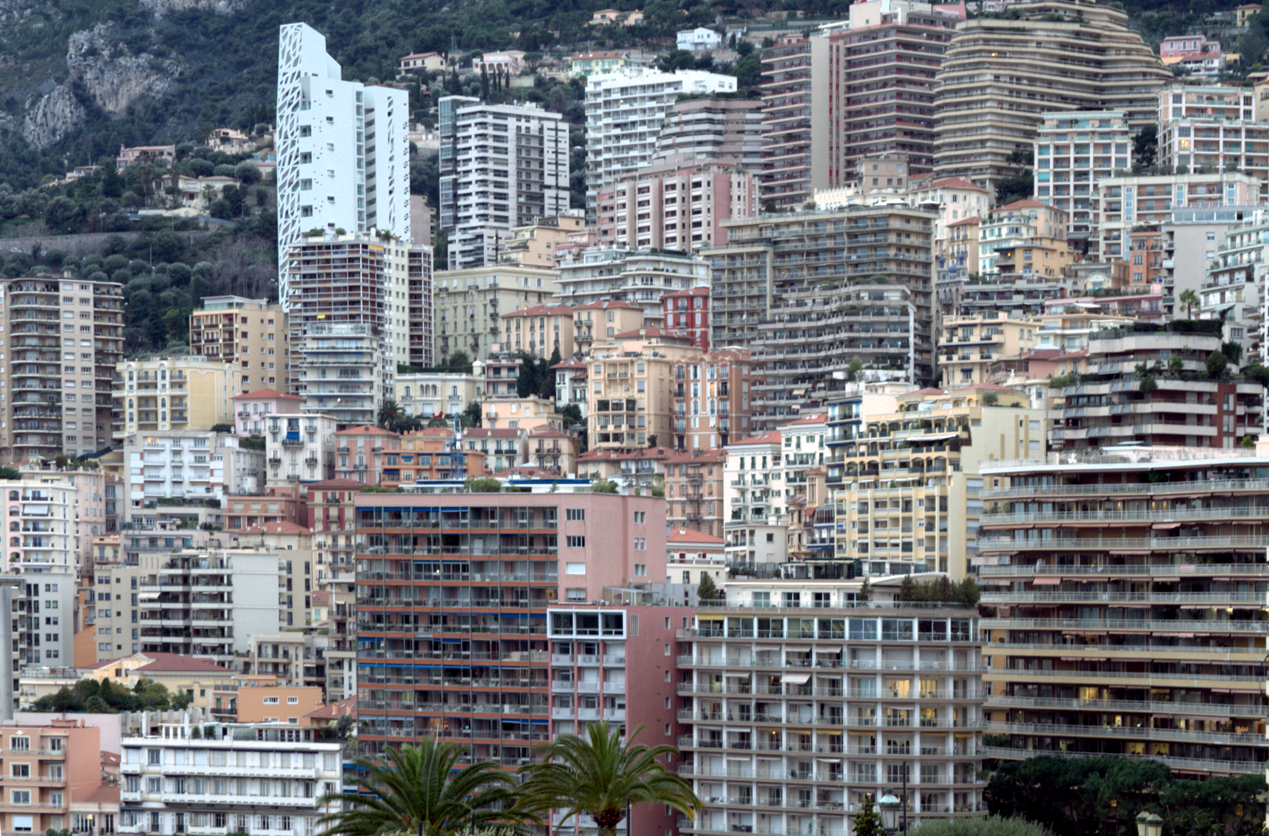 Crowded Monaco